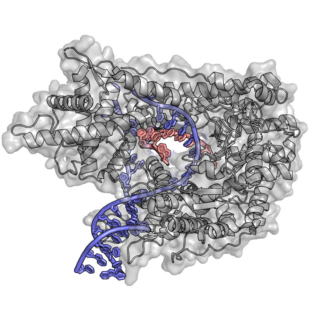 T7 RNA polymerase from Enterobacteria phage T7 with DNA and RNA fragments structure, PDB ID 1MSW [1]. Protein core colored gray, DNA is blue, RNA is salmon. All is shown as surface and cartoon. Free pymol sjftware is used for rendering.